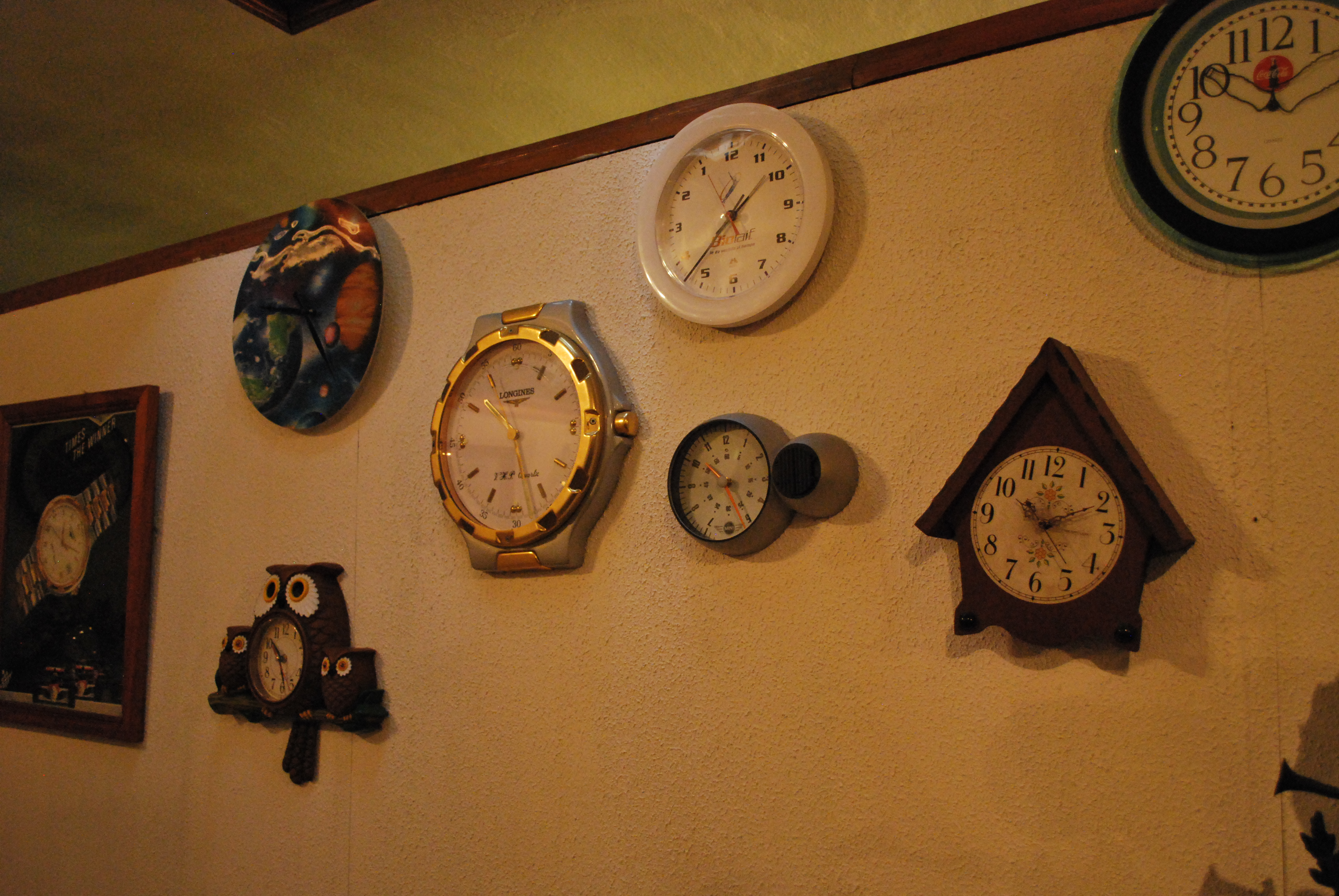 Wall clocks on display at the Clock Museum in Zacatlán, Puebla, Mexico